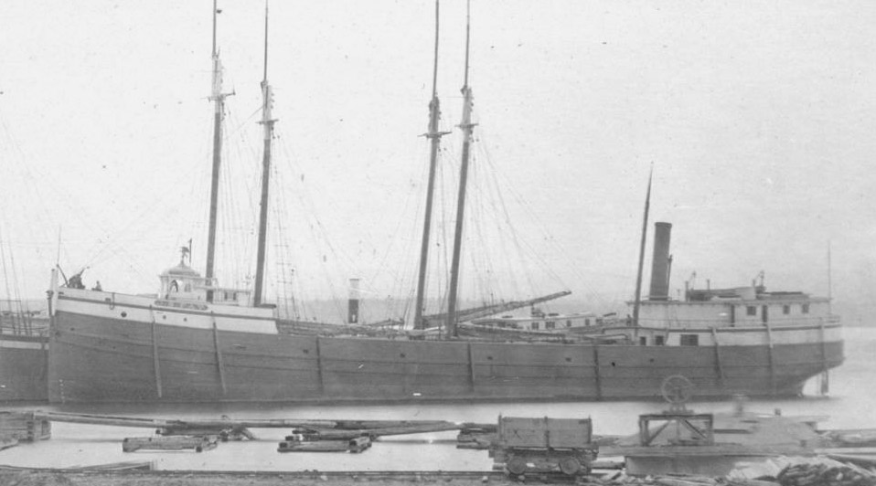 Joseph S Fay, c. 1874, waiting at the Soo Locks